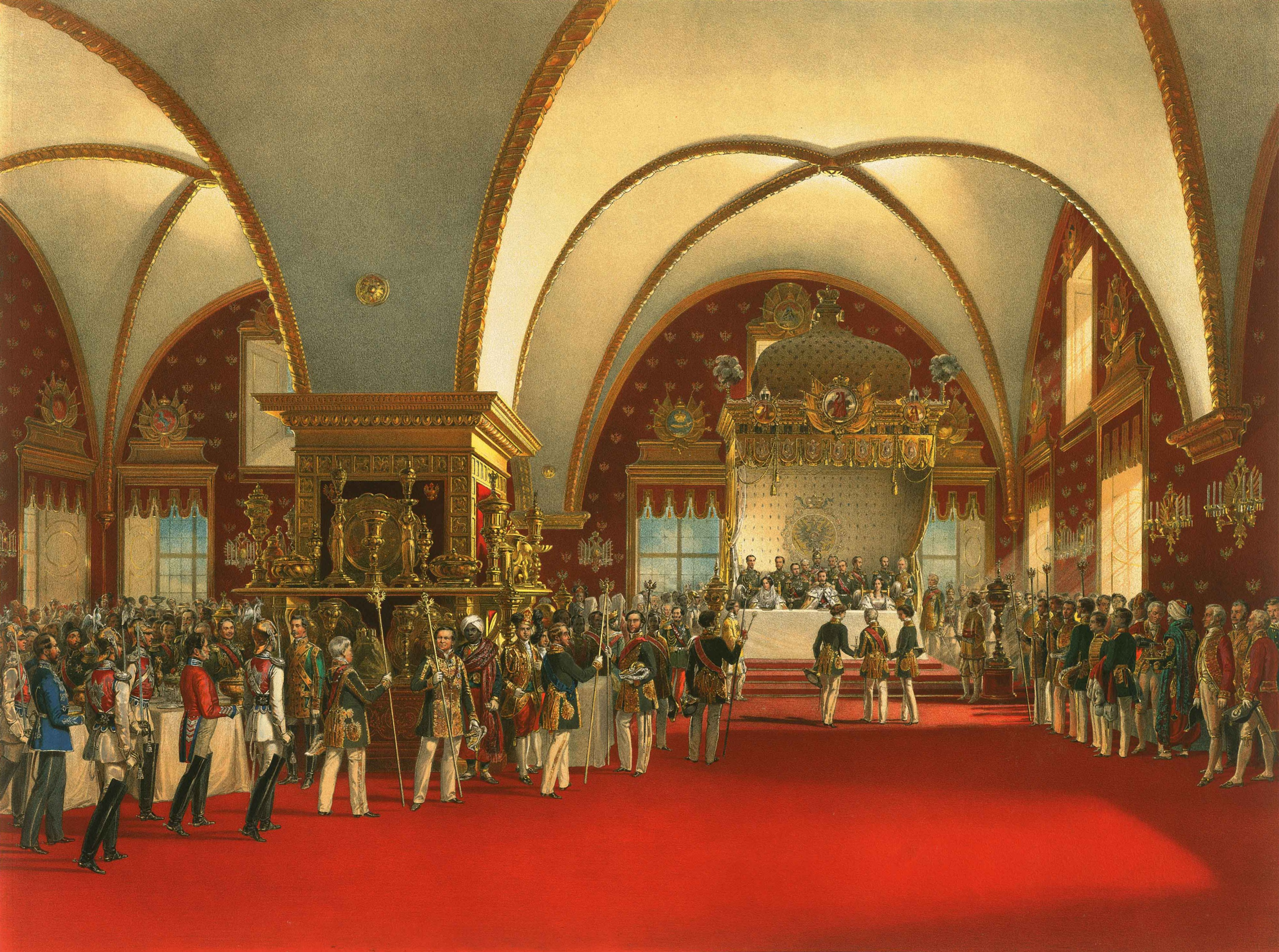 Coronation banquet of Tsar Alexander II (1856) in the main hall of the Palace of Facets